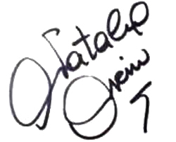 Singature of Uruguayan actress and singer Natalia Orerio